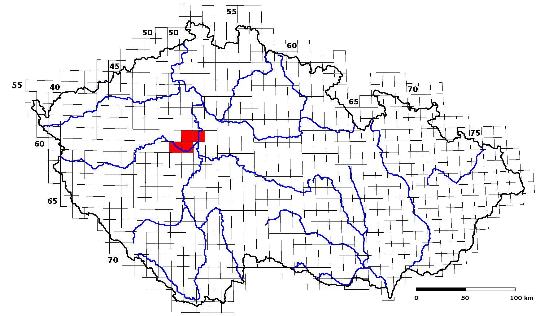 grid map of distribution of Chondrina avenacea in the Czech Republic. (Feel free to upload whole distribution map in Europe.)